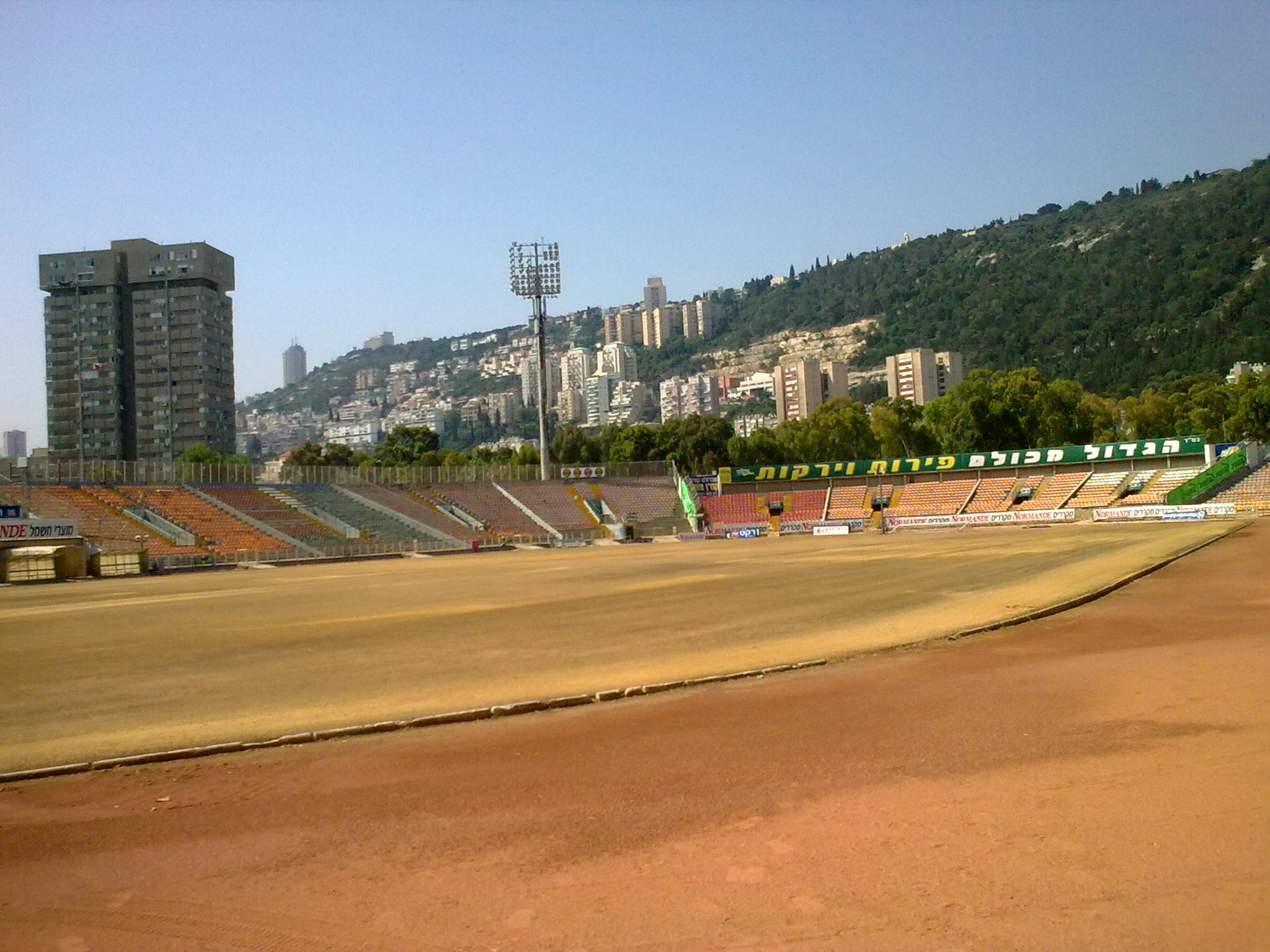 Kiryat Eliezer Stadium, Haifa